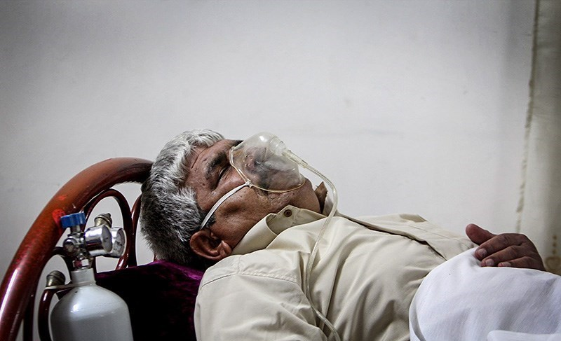 Iranian veterans ( Iranian Janbaz in the Iran-Iraq war) who has problem in breathing.